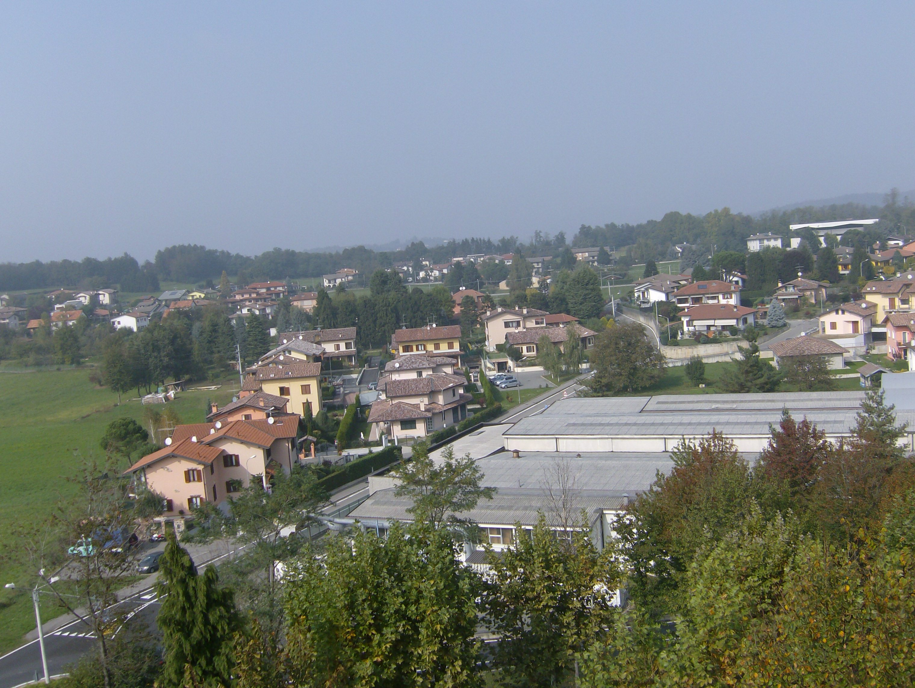 Landscape of Cagno from the campanile of San Giorgio's church